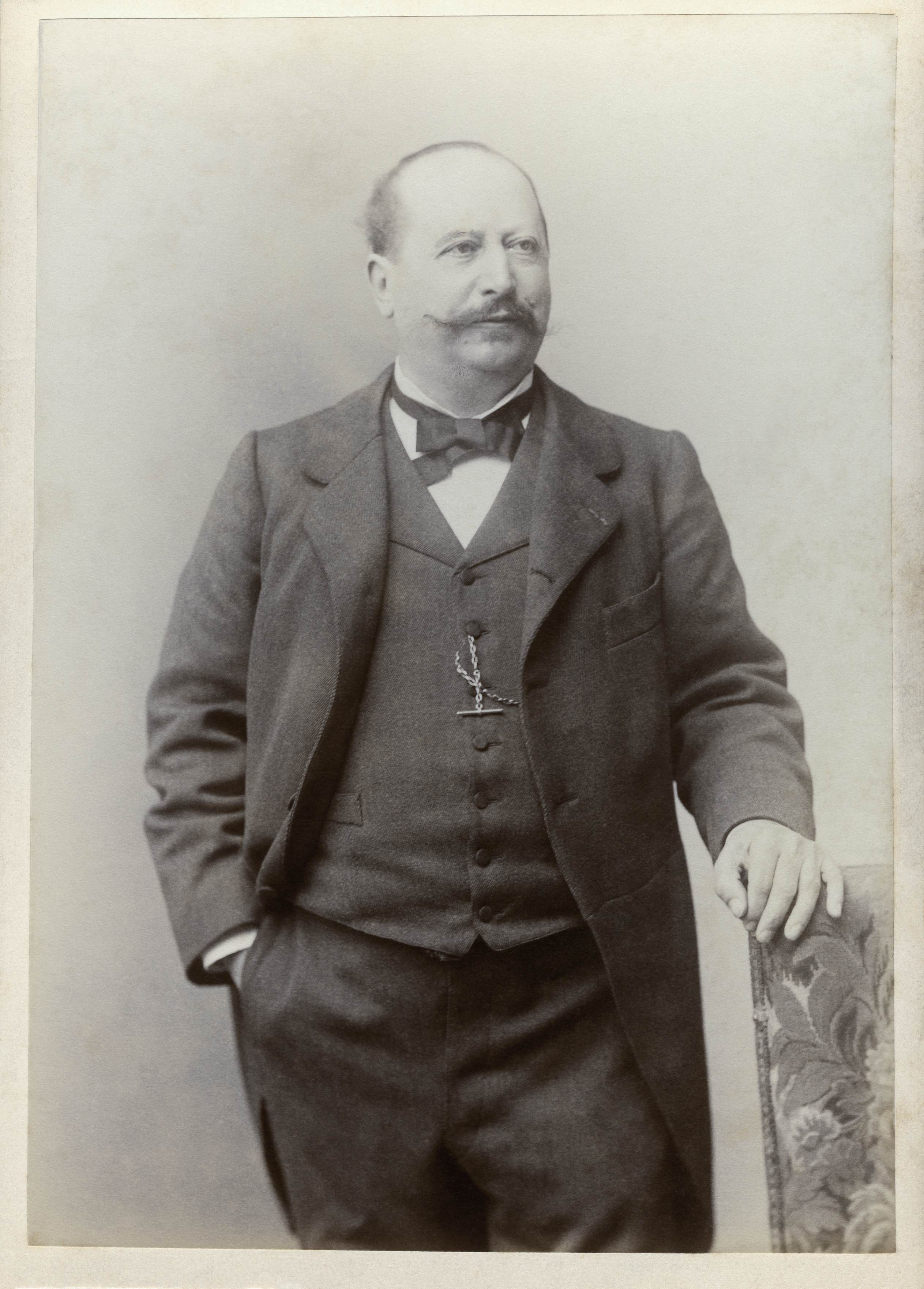 Henri Filhol – French prehistorian and paleontologist Source: Library and Documentation Service Museum of Toulouse